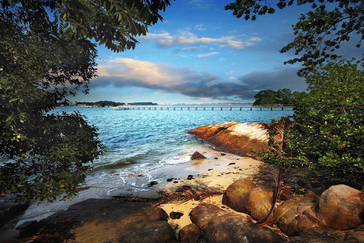 This shot made it to Explore Front Page today. Appreciate the kind encouraging comments and faves from you people. Have a nice day! Best to view on BLACK Chek Jawa, a 100-hectare wetlands located on the south-eastern tip of Pulau Ubin, an island off the north-eastern coast of the main island of Singapore. The new boardwalk running along the coast and into the mangrove area allows visitors to get up close to plant and marine life such as fiddler crabs and monitor lizards, without damaging the area. pp: A mixed bag of HDR with "blending" & "multiply" to desired effect. Clouds planted in from my library shot. Finished off with selected areas in "poster edges" filter from CS3 Best to view on BLACK